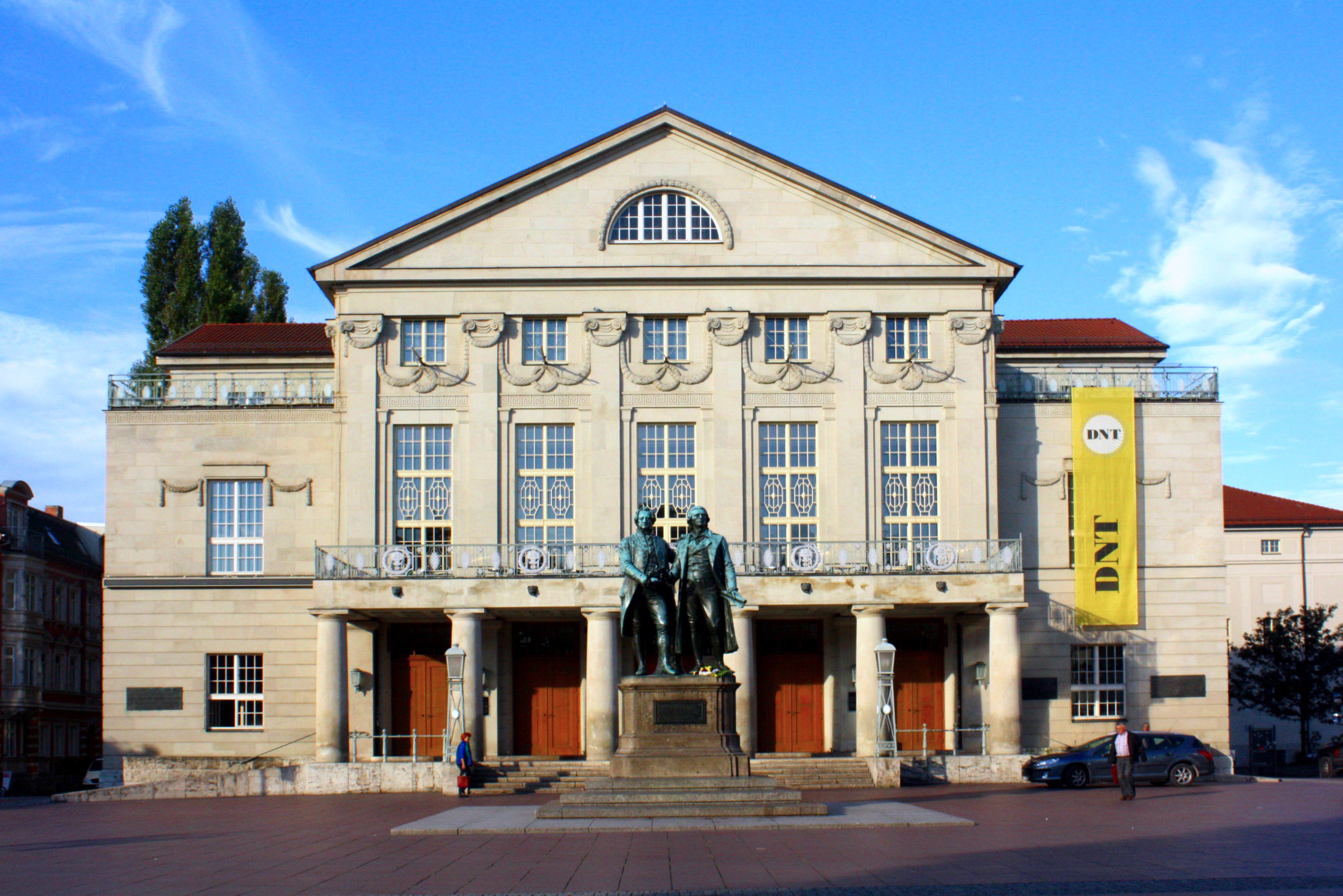 German National Theatre ("Deutsches Nationaltheater") in Weimar/Thuringia